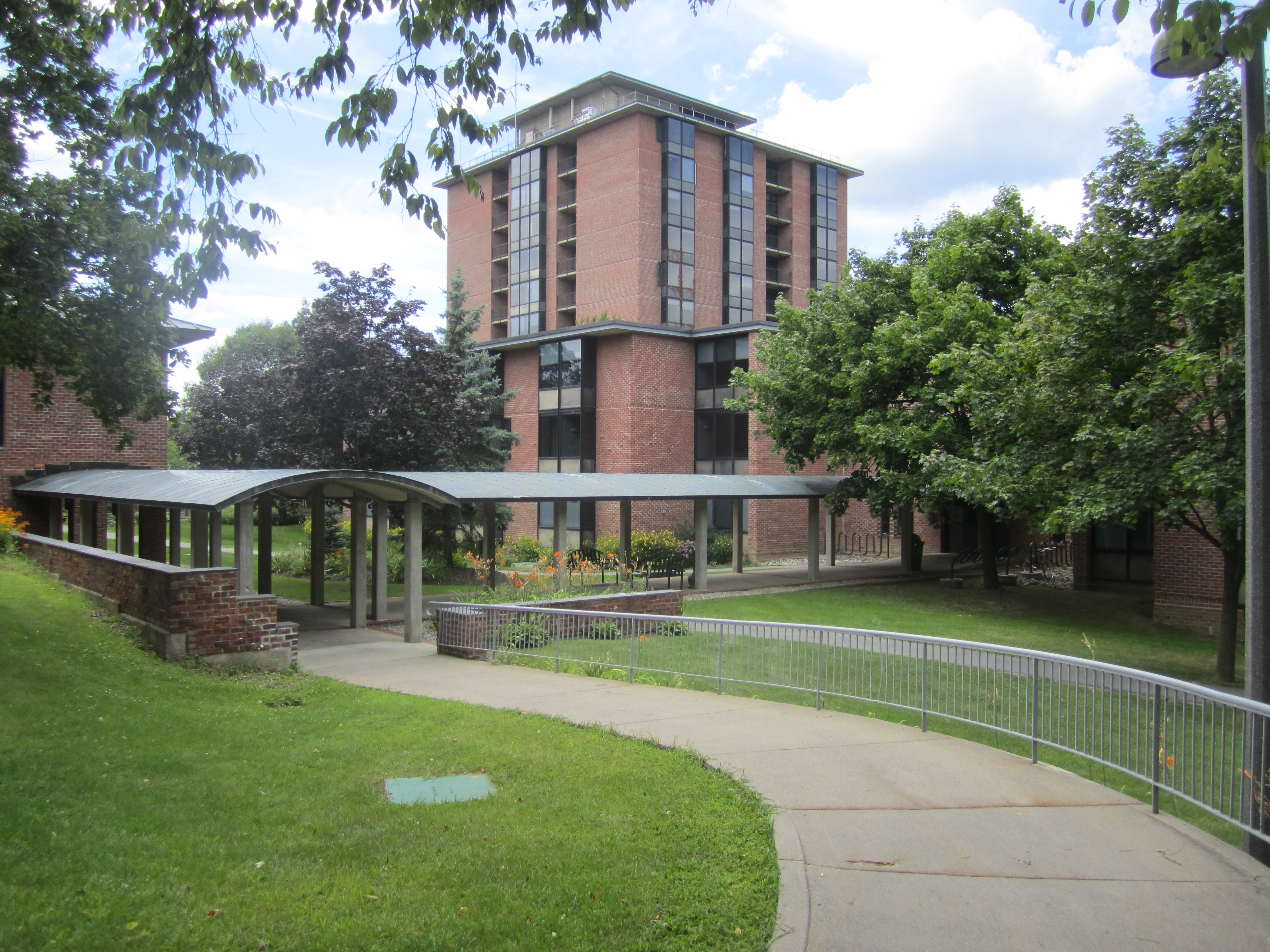 Jonsson Tower, Skidmore College, Saratoga Springs NY